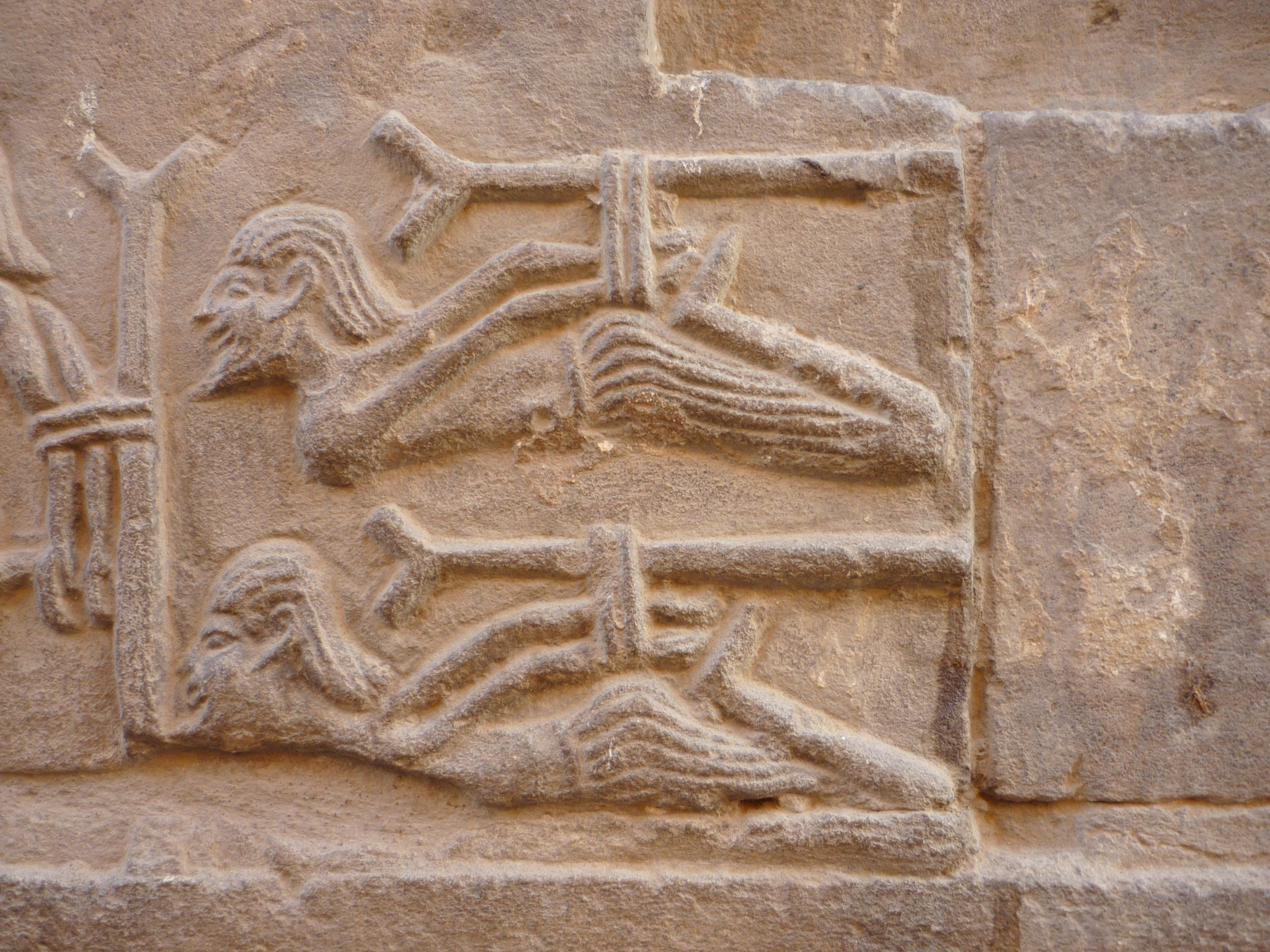 Wall relief of captives, Kom Ombo Temple, Egypt